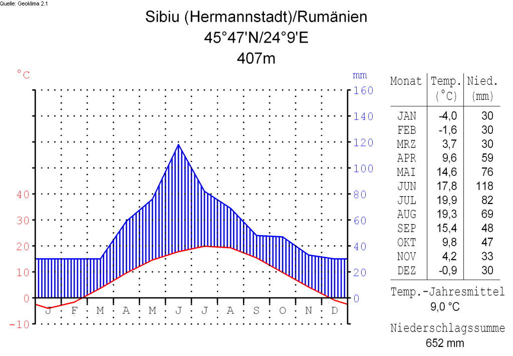 climate chart in the format by Walter and Lieth, metric, °Celsisus and millimeters, made with Geoklima 2.1